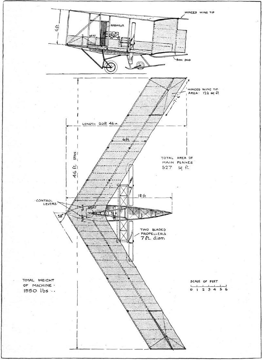 Plans for the Dunne D.5. Source: Flight, June 18, 1910. Image believed to be scanned from "Flight" magazine published in June 18, 1910.